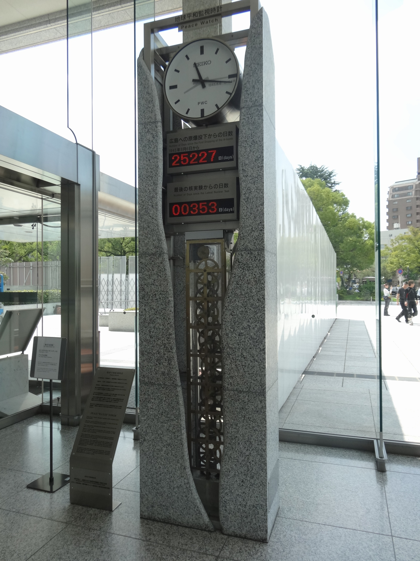 Peace Watch Tower on August 31, 2014 (Hiroshima, Japan)